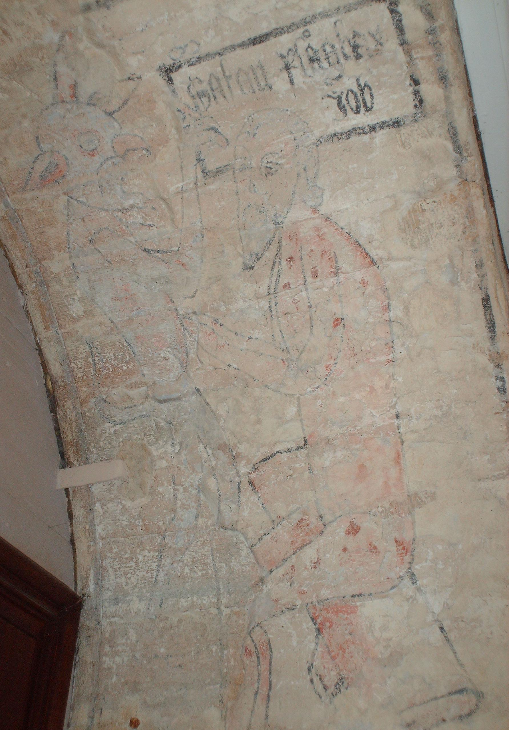 Landeryd Church, Sweden